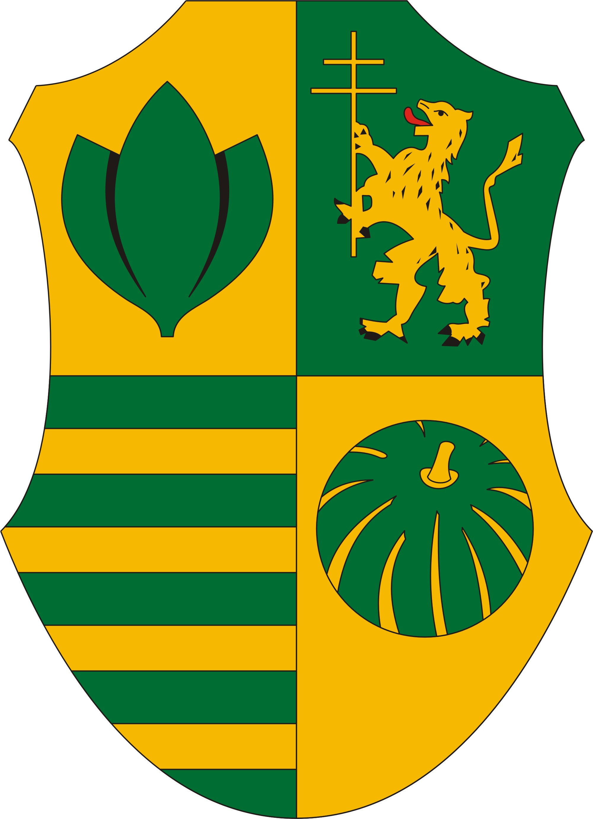 Coat of arms of Pusztaottlaka, Hungary